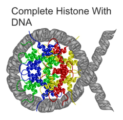 Schematic representation of the nucleosome, the smallest subunit of the chromatin. The DNA (grey) is wrapped around the nucleosomal core proteins, the histones H2A (yellow), H2B (red), H3 (blue), and H4 (green). The nucleosomal linker is the section of the DNA that is not wrapped around the core. It is normally attached to the histone H1 (not shown). The total length of the DNA per nucleosome is ~180 bp.